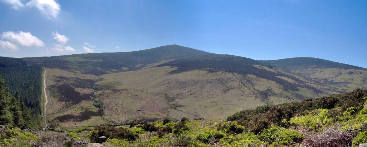 Djouce a mountain in County Wicklow, Ireland